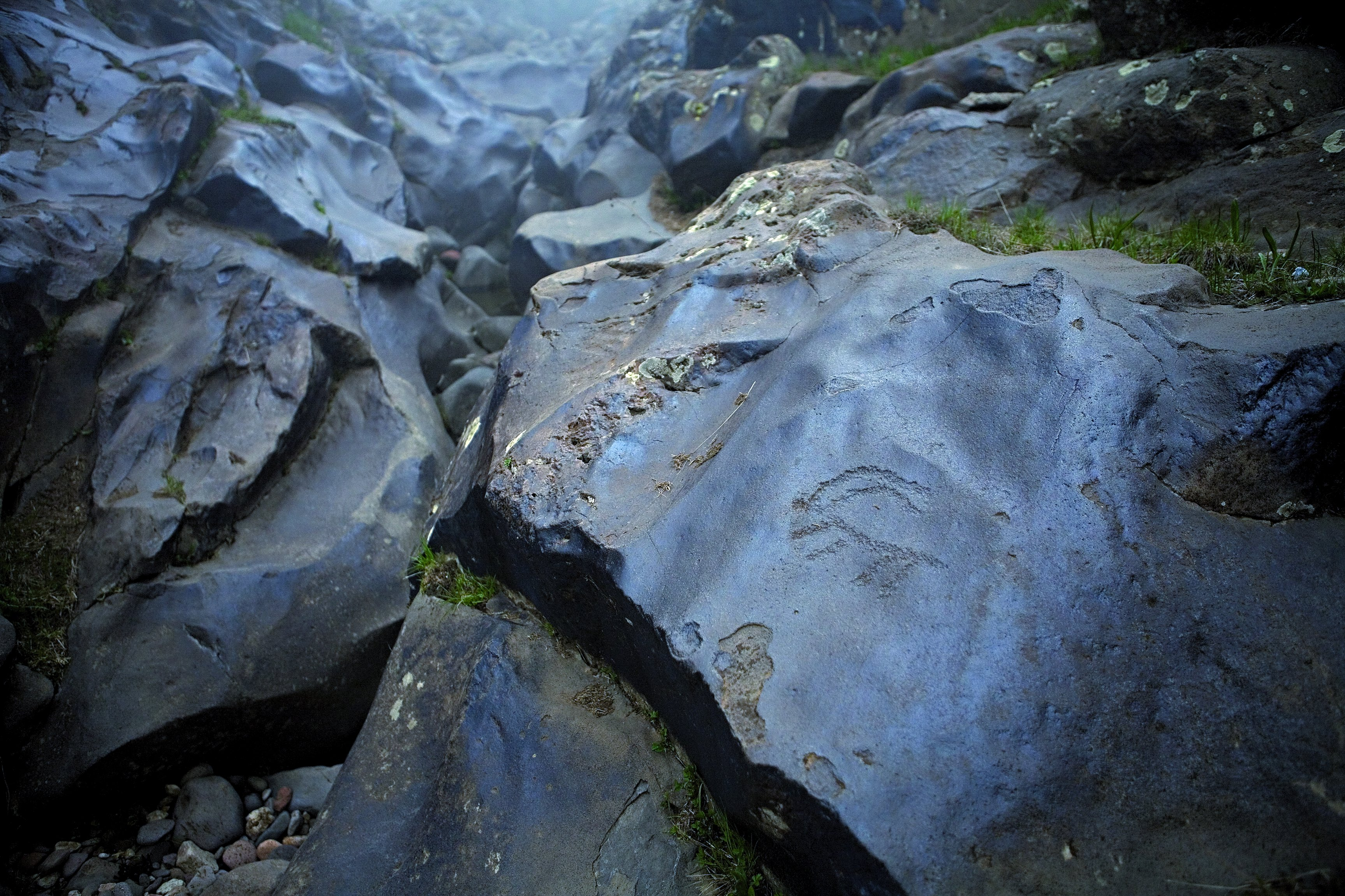 The Petroglyph of a Goat on the Slope of Ukhtasar Volcano